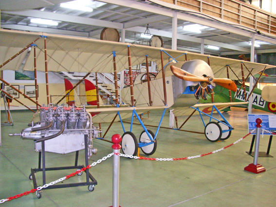 Caudron G.III Replica.. This photograph was taken in "Museo del Aire", Cuatro Vientos, Madrid, Spain. I am the author of this picture, and I'd desire everybody could see it freely in Wikipedia.